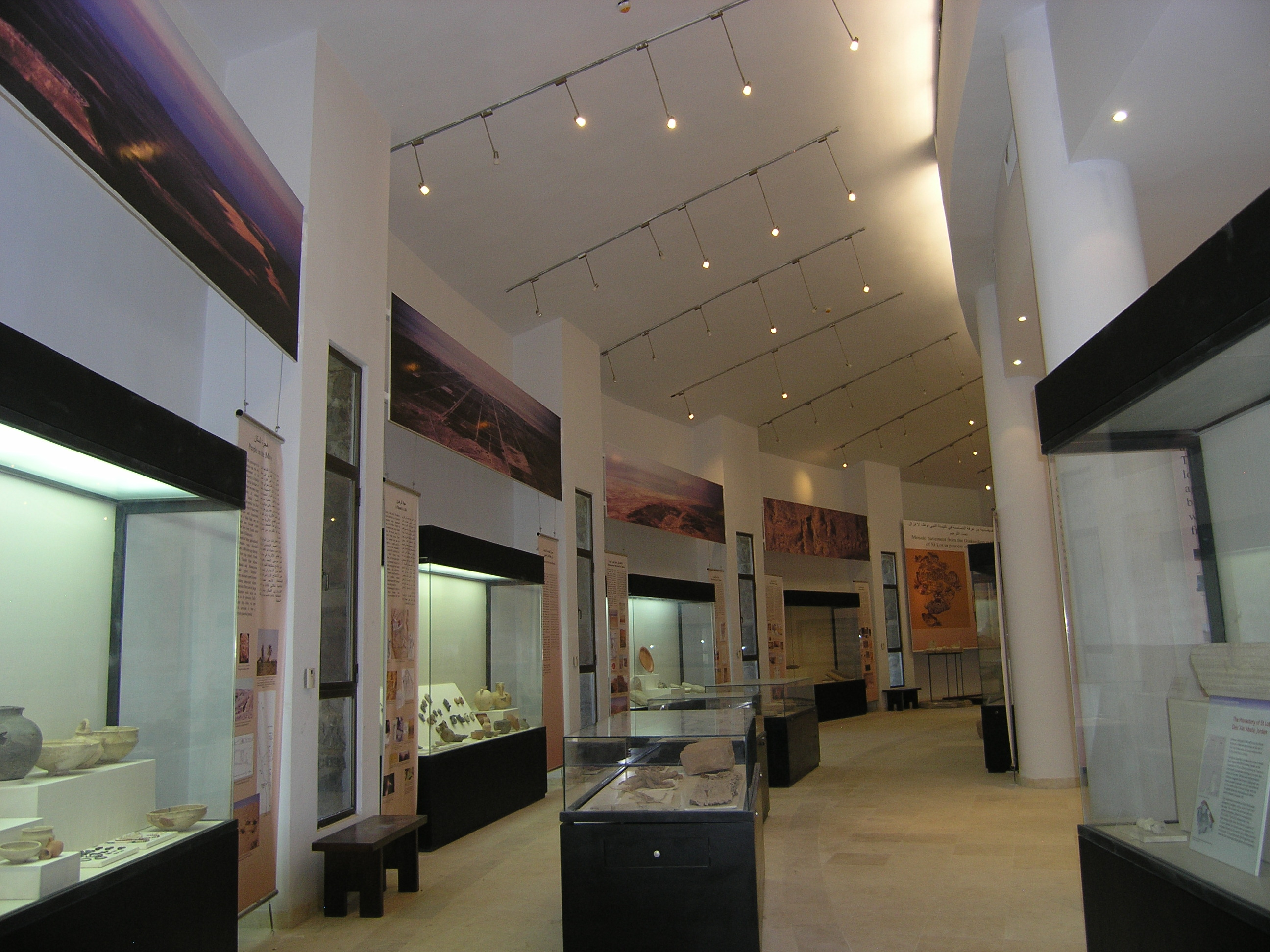 Museum at the Lowest Place on Earth (MuLPE) and the winding road to the Sanctuary of Agios Lot